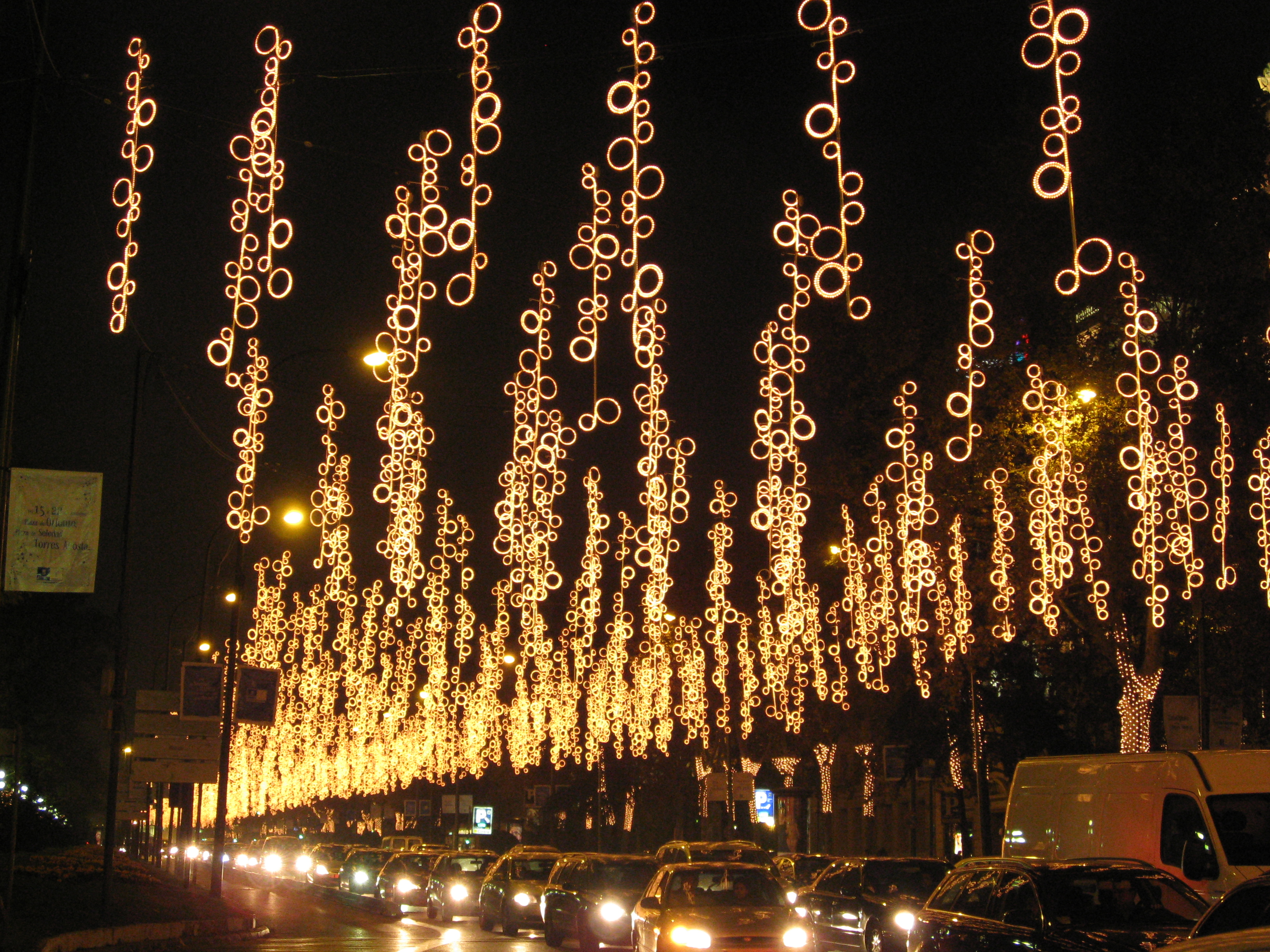 Christmas lights in a street of Madrid (Spain).